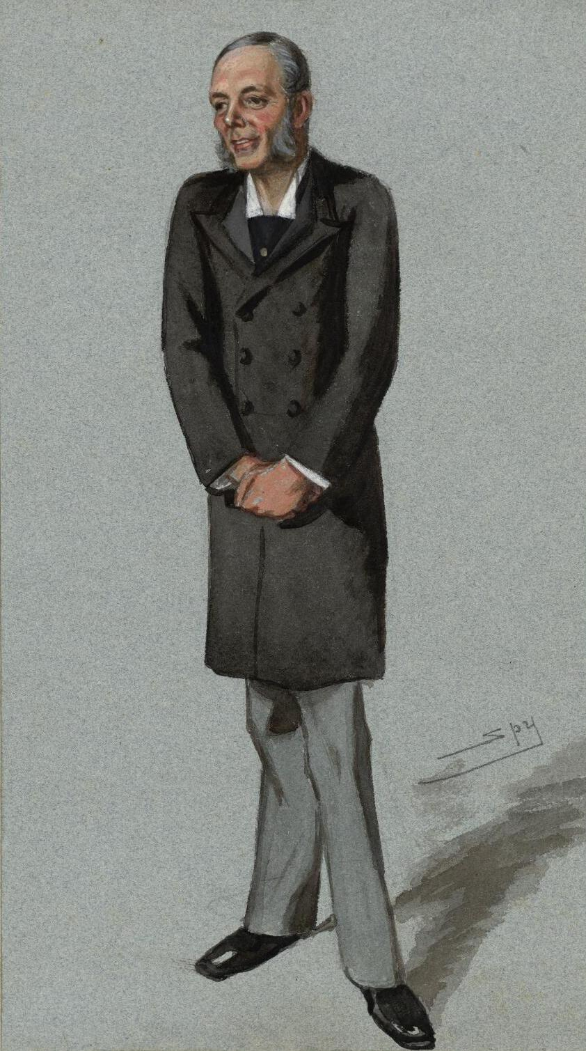 A portrait from the Welsh Portrait Collection at the National Library of Wales. Depicted person: George Osborne Morgan – Welsh lawyer and Liberal politician